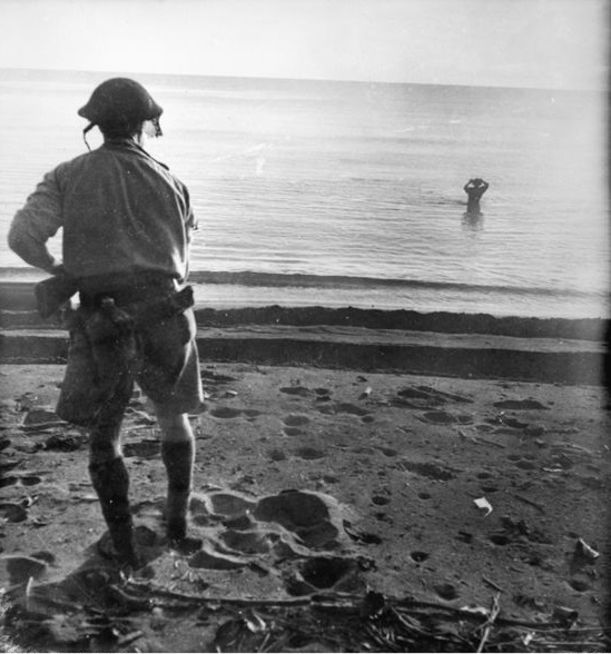 WHEN THE FIRST LINE OF AUSTRALIAN INFANTRY PASSED OVER THEIR POSITIONS FOUR JAPANESE RACED INTO THE WATER. CALLED ON TO SURRENDER, THREE OF THEM STARTED TO SWIM OUT TO SEA AND WERE SHOT. THE FOURTH PUT UP HIS HANDS AND STARTED TO WADE INTO THE BEACH. HE WADED IN WITH ONE HAND UNOPENED. WHEN ABOUT 10 YARDS AWAY HE OPENED HIS HAND TO REVEAL A GRENADE. CALLED ON TO DROP THE GRENADE, HE SUDDENLY TAPPED IT ON HIS HEAD AND WAS BLOWN TO PIECES. HE PUT HIS HANDS UP.